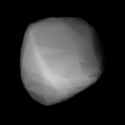 3D convex shape model of 3430 Bradfield, computed using light curve inversion techniques. J. Hanuš, J. Ďurech, M. Brož, B. D. Warner (June 2011). "A study of asteroid pole-latitude distribution based on an extended set of shape models derived by the lightcurve inversion method". Astronomy and Astrophysics 530: A134. ISSN 0004-6361. arXiv